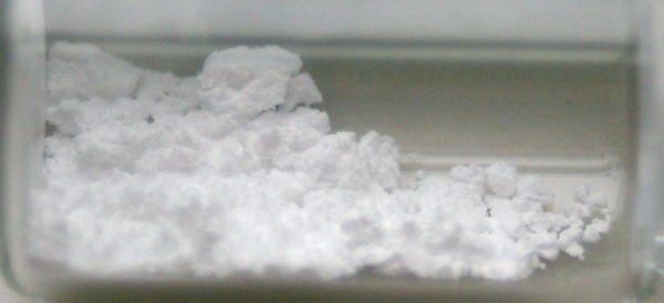 Eu2O3 powder